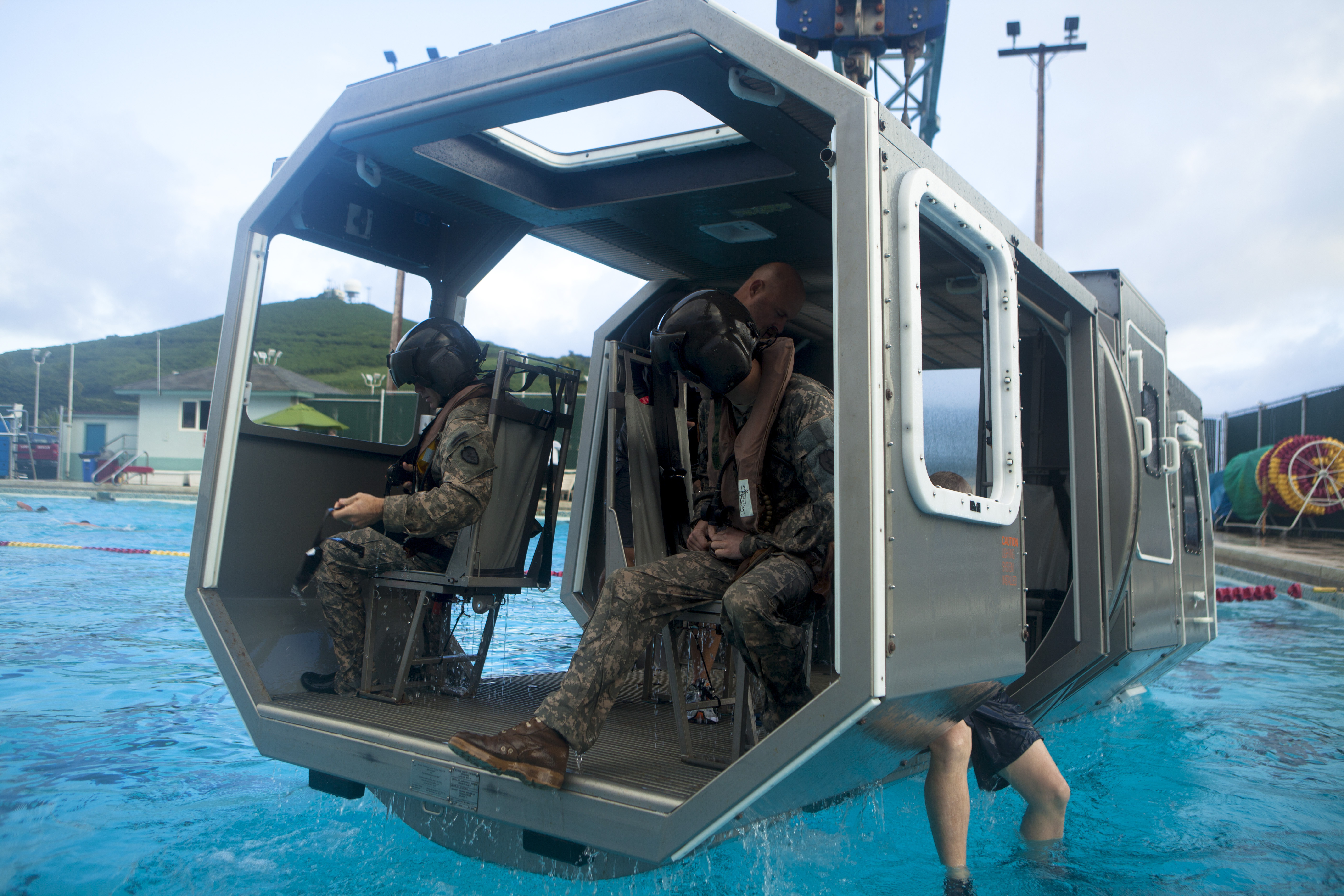 U.S. Soldiers with the 25th combat aviation brigade prepare to submerge underwater during a helo dunker simulator at the base pool aboard Marine Corps Base (MCB) Hawaii, Dec. 10, 2013. U.S. Soldiers with the 25th combat aviation brigade attended the simulator to enhance their training in worse case scenarios while flying aboard UH-60 Blackhawks (U.S. Marine Corps photo by Lance Cpl. Aaron S. Patterson, MCBH Combat Camera/Released)